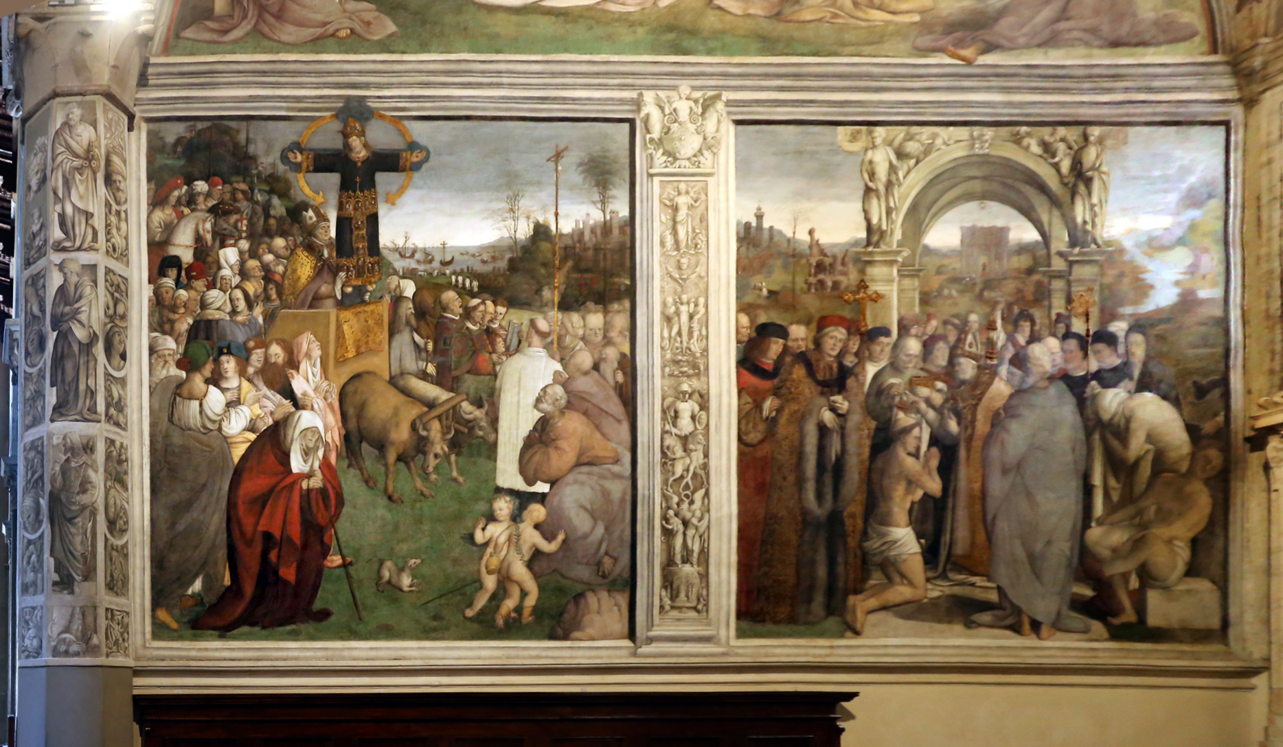 Cappella di Sant'Agostino (Lucca)